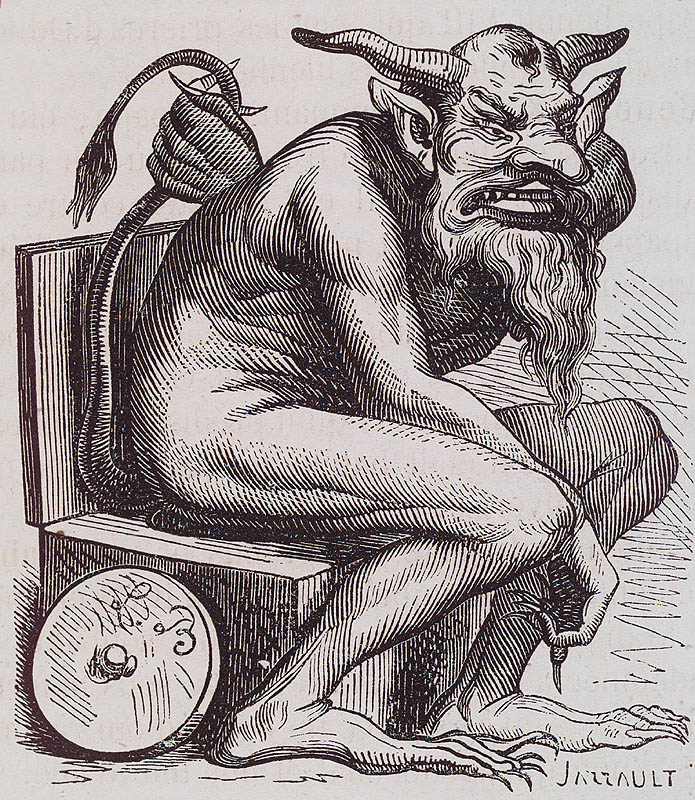 Depiction of the demon Belphégor, a demon of discovery and of ingenious inventions who often takes the form of a young woman, from J.A.S. Collin de Plancy. Dictionnaire Infernal. Paris: E. Plon, 1863. Page 89.